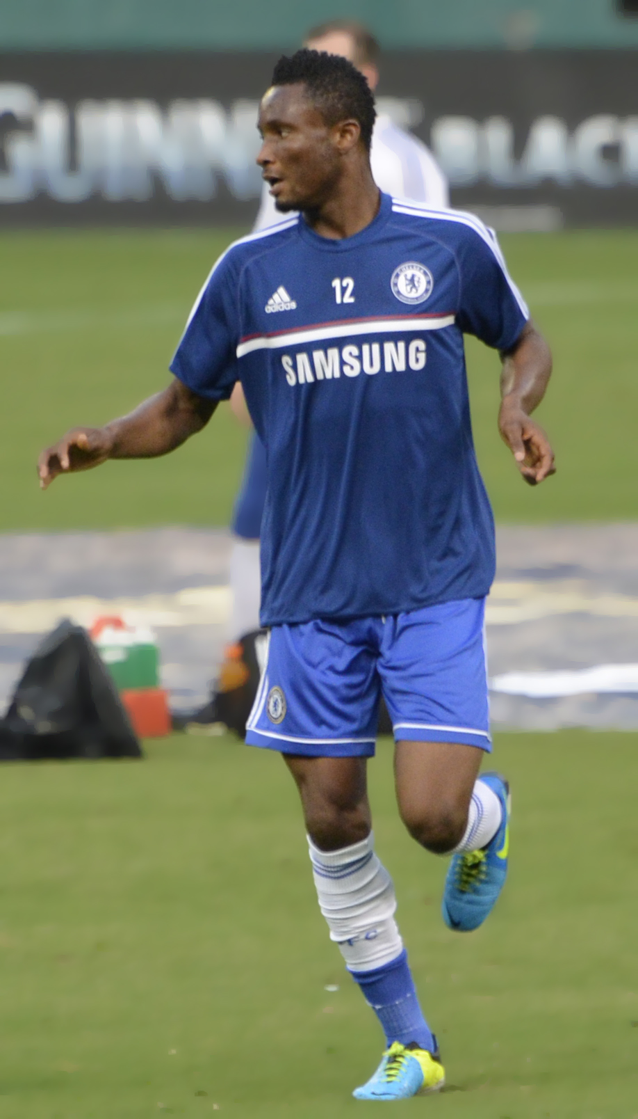 John Obi Mikel of Chelsea FC playing against A.S. Roma in a friendly in August 2013. Game was played in Robert F. Kennedy Memorial Stadium in Washington D.C.